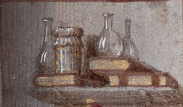 New York, Pierpont Morgan Library, M. 834, fol. 29 (Detail)